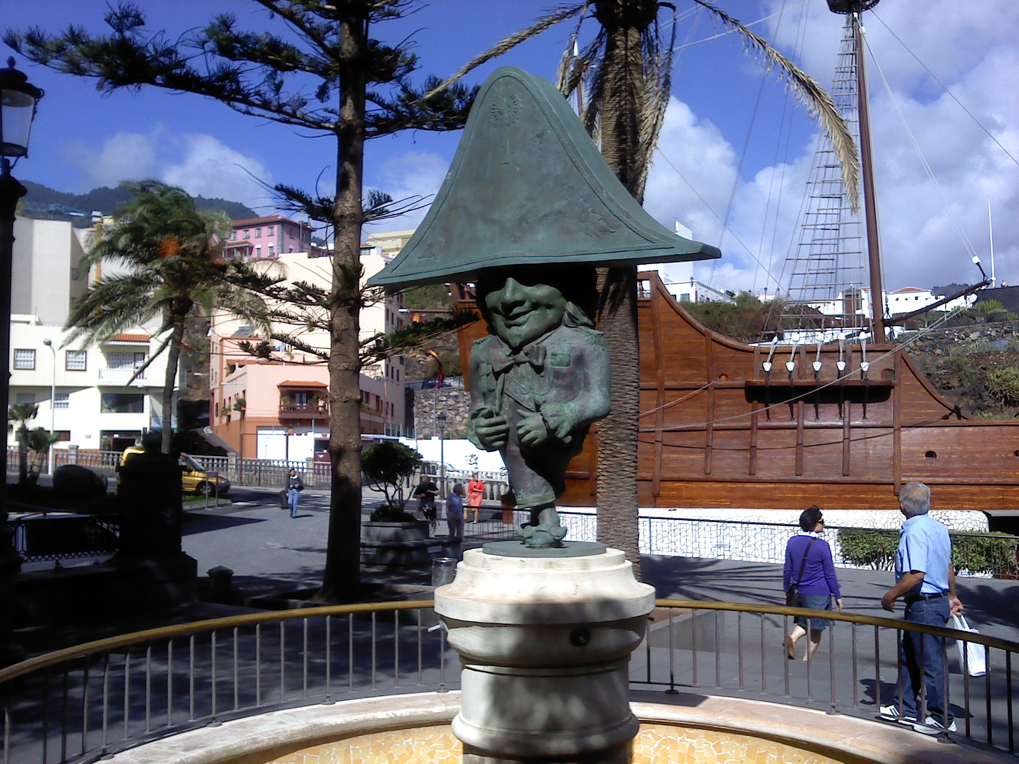 Dwarf from Luis Morera in Santa Cruz, La Palma